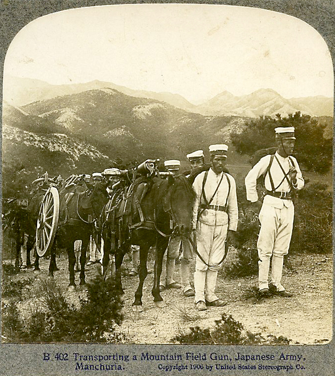 Transporting Type 31 Mountain Gun by Japanese artillery crew during Russo-Japanese War, 1904. Published 1906 by United States Stereograph Co.